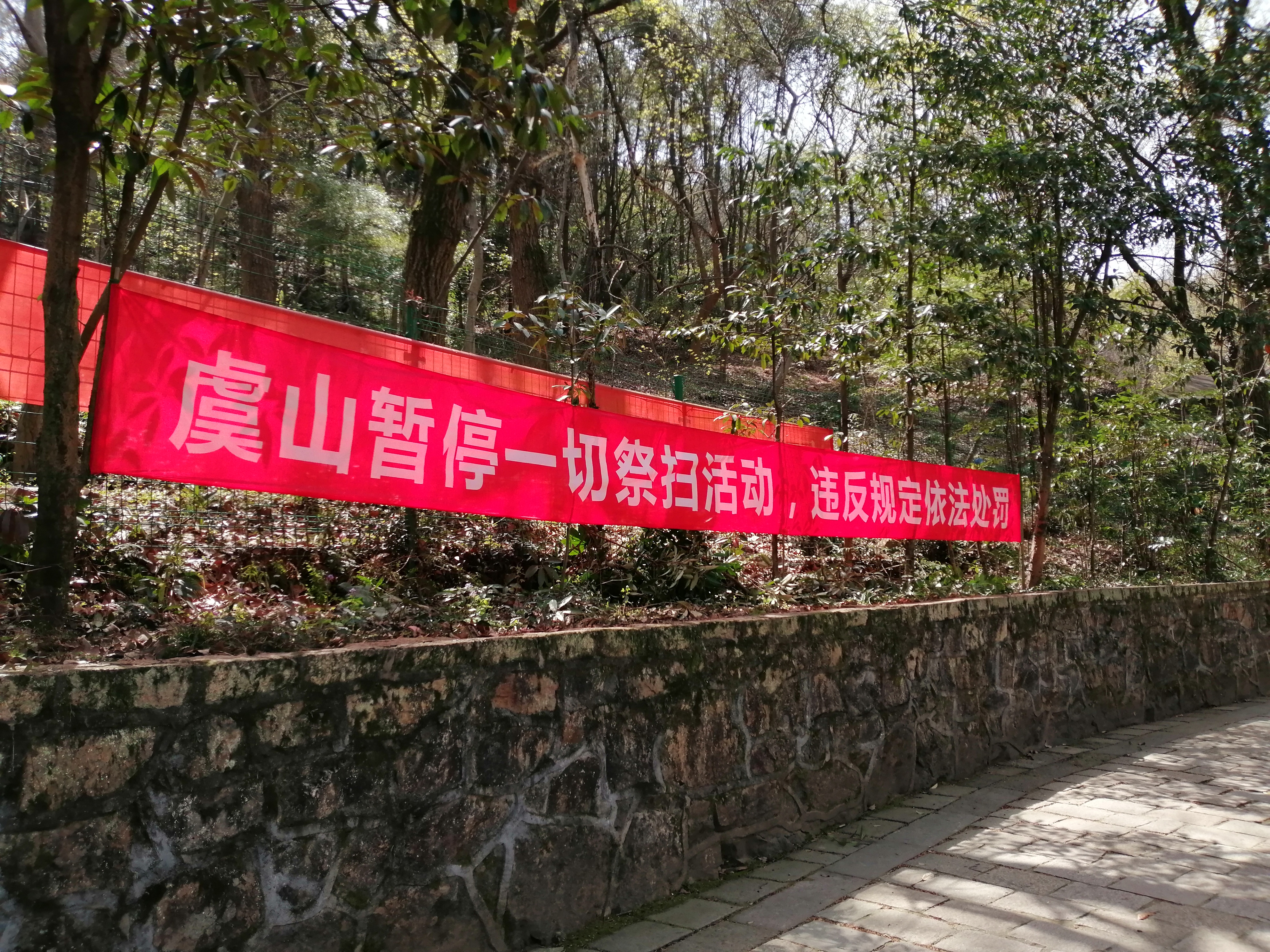 No memorial activities allowed in Yushan Mountain, Changshu during pandemic. Violators will be punished.